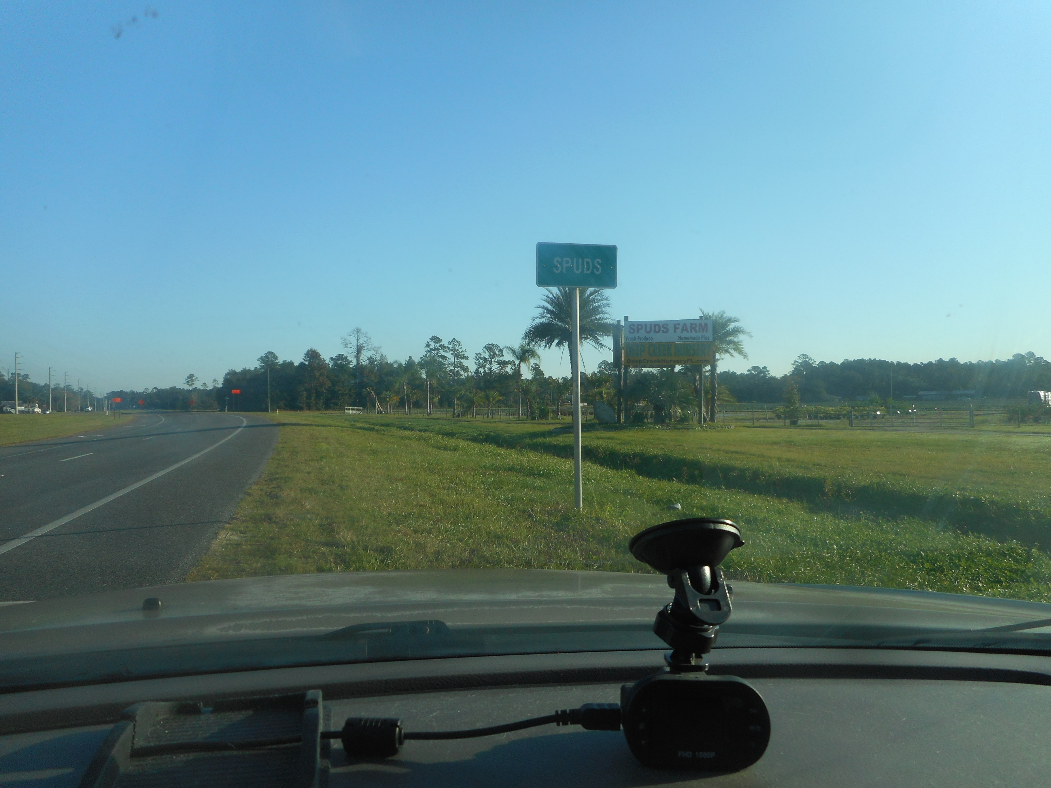 Eastbound Florida State Road 207 as it enters the unincorporated agricultural community of Spuds, Florida. Taken while pulled over on the right-hand shoulder of the road.